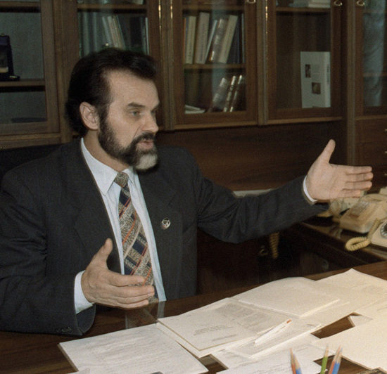 “Alexei Kazannik”. Russian Prosecutor-General Alexei Kazannik.